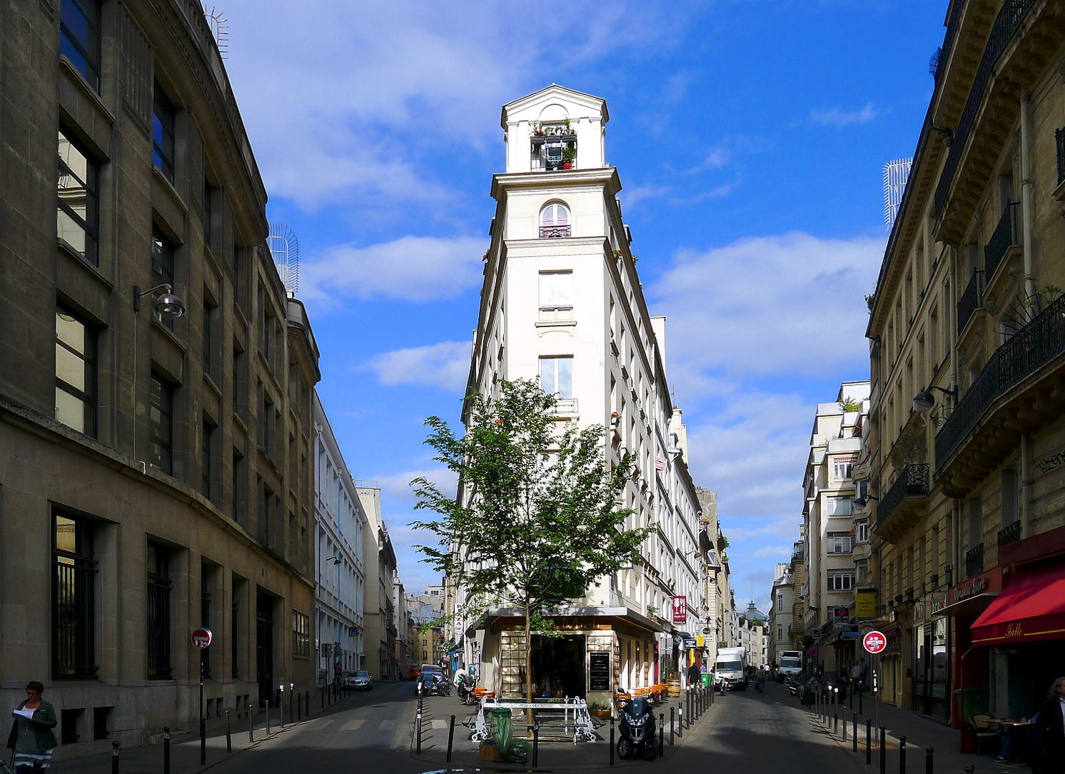 Feydeau and Saint-Marc streets - Paris